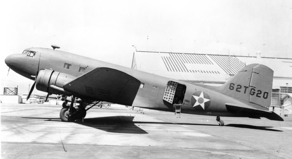 PictionID:40972886 - Title:Douglas C-39 62TG Oakland Airport 1941 - Catalog:15_002775 - Filename:15_002775.tif - Image from the Charles Daniels Photo Collection album "US Army Aircraft."----PLEASE TAG this image with any information you know about it, so that we can permanently store this data with the original image file in our Digital Asset Management System.----SOURCE INSTITUTION: San Diego Air and Space Museum Archive